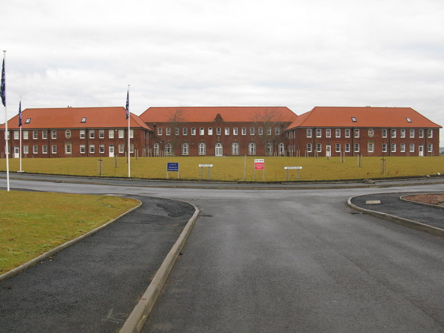 Former Winston Barracks